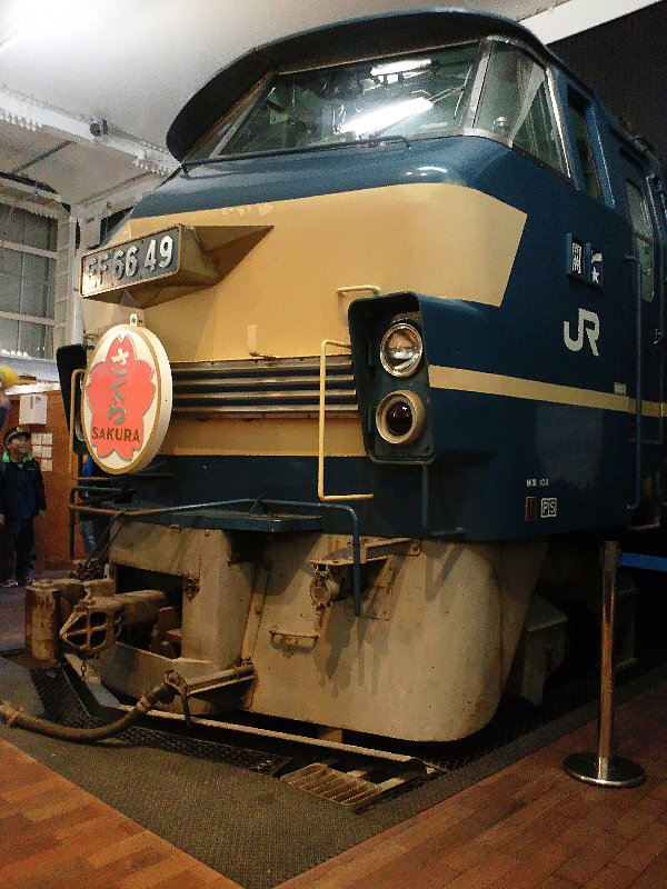 The preserved cab end of Class EF66 electric locomotive EF66 49